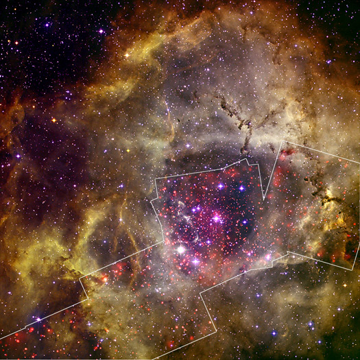 Dec +04° 55' 57.00" Constellation Monoceros Observation Date 4 pointings on 5-6 Jan 2001, 1 Jan 2004, 9 Feb 2007 Observation Time 50 hours (2 days 2 hours) Obs. ID 1874-1877, 3750, 8454 Instrument ACIS References Wang et al, 2010 ApJ 716:474-489 Color Code Optical (Purple, Orange, Green, Blue); X-ray (Red)